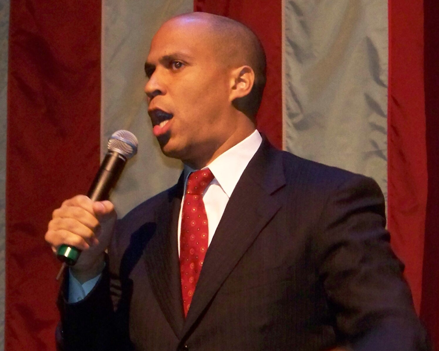 Cory Booker at a Barack Obama campaign rally in Newark, NJ